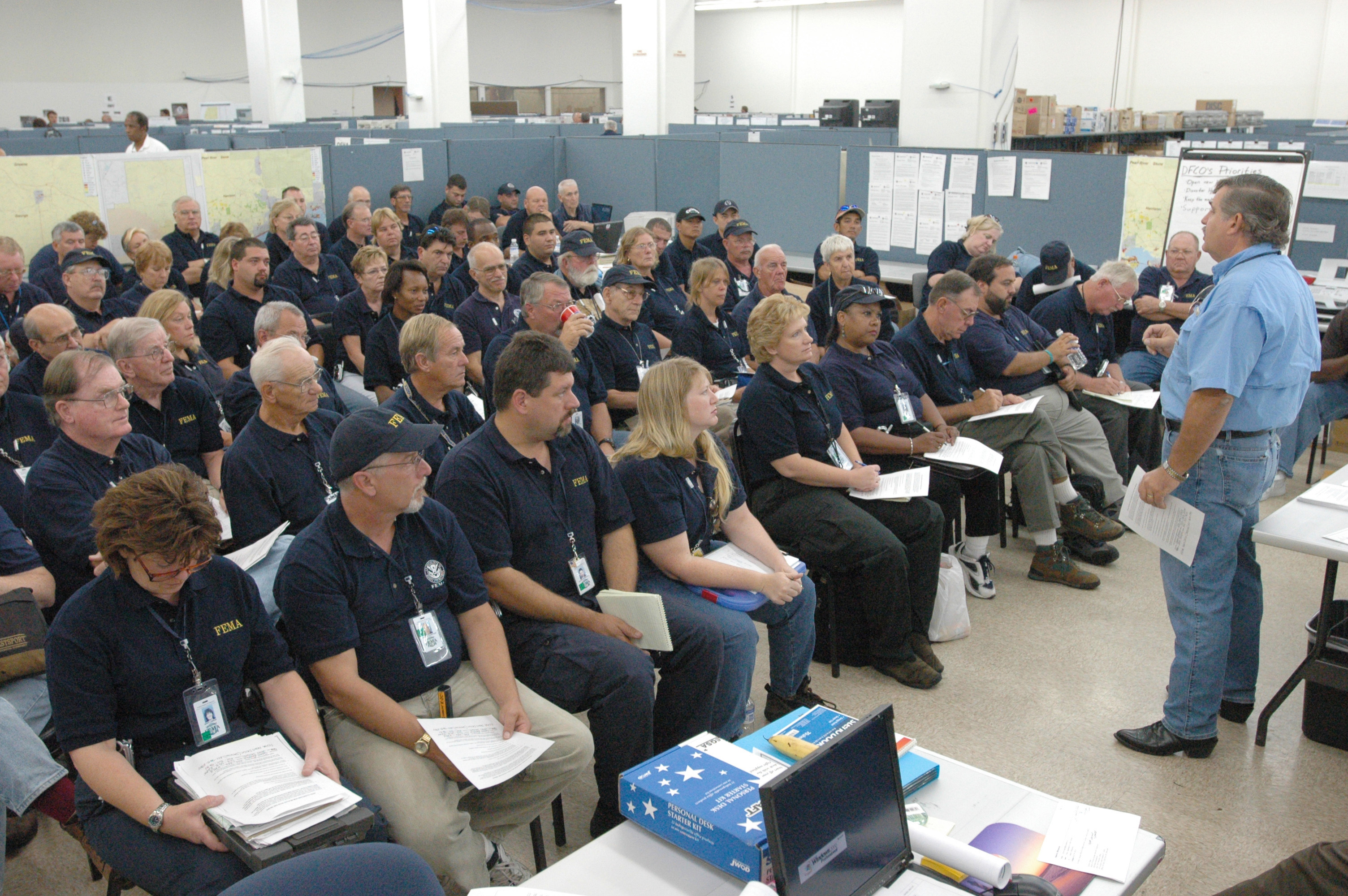 Biloxi, Miss., October 4, 2005 -- FEMA Public Information Officer (PIO) Gene Romano (standing) briefs FEMA Community Relations (CR) staff at the Biloxi Area Field Office (AFO). Community Relations officers take the FEMA message directly to residents affected by disasters. FEMA/Mark Wolfe